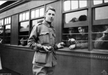 Gunner Thomas Charles Richmond Baker about to depart by train for further army training before being posted overseas in the First World War. Baker served with an artillery unit on the Western Front, before transferring to the Australian Flying Corps as a pilot in 1917.